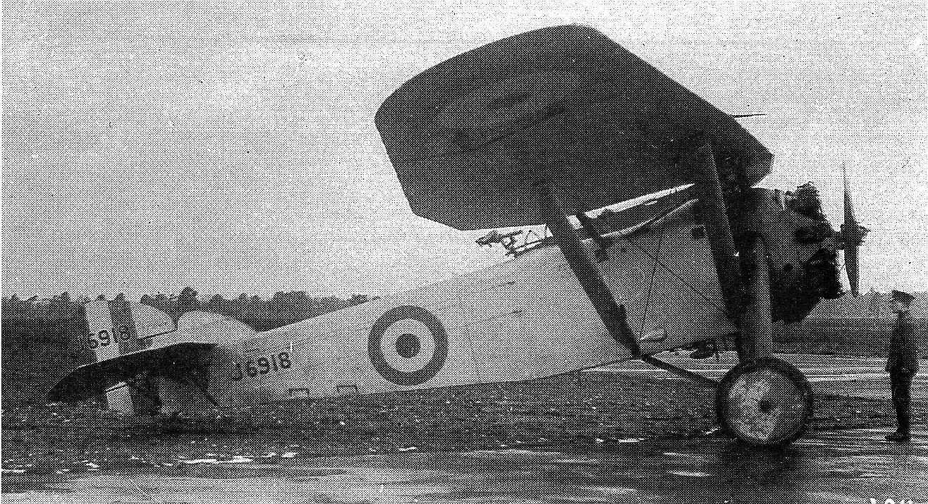 Hawker Duiker at Martlesham December r1923